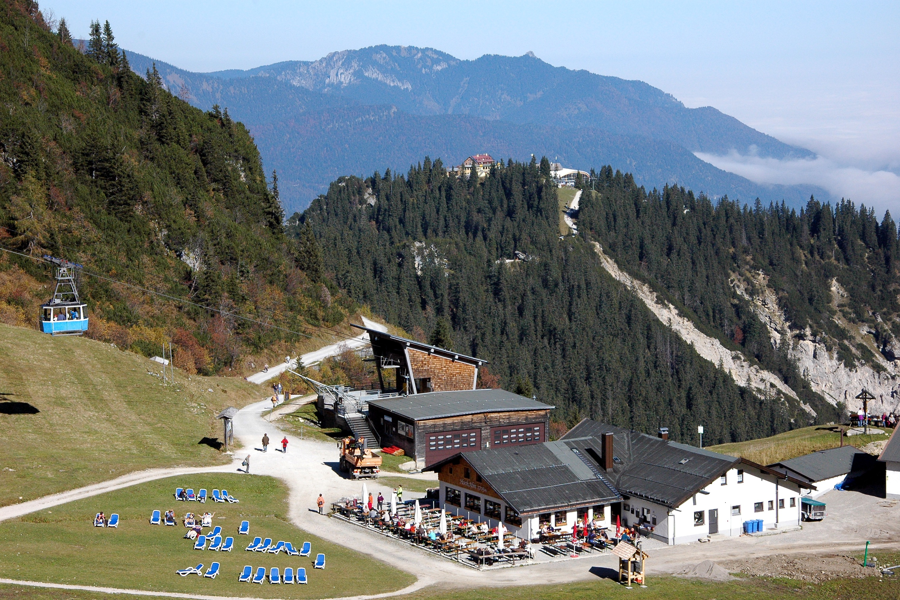 View over Hochalm and Hochalm cableway to Kreuzeck with Kreuzeckhaus and summit station of the Kreuzeckbahn.